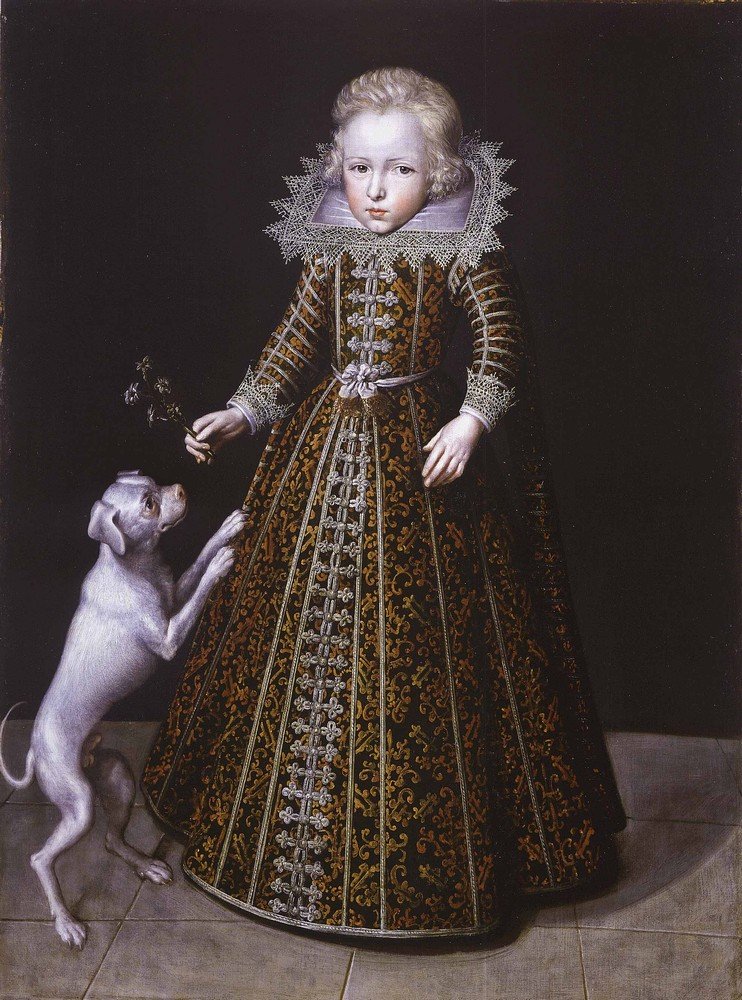 Depicted person: Ulrik, prince of Denmark (1611-1633)